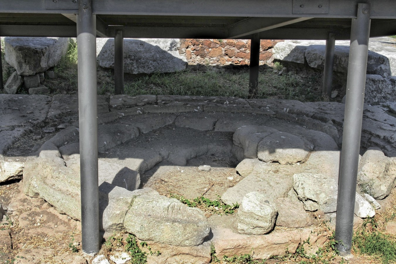 Circular structure belonging to the Lacus Curtius on the Roman Forum (Rome).